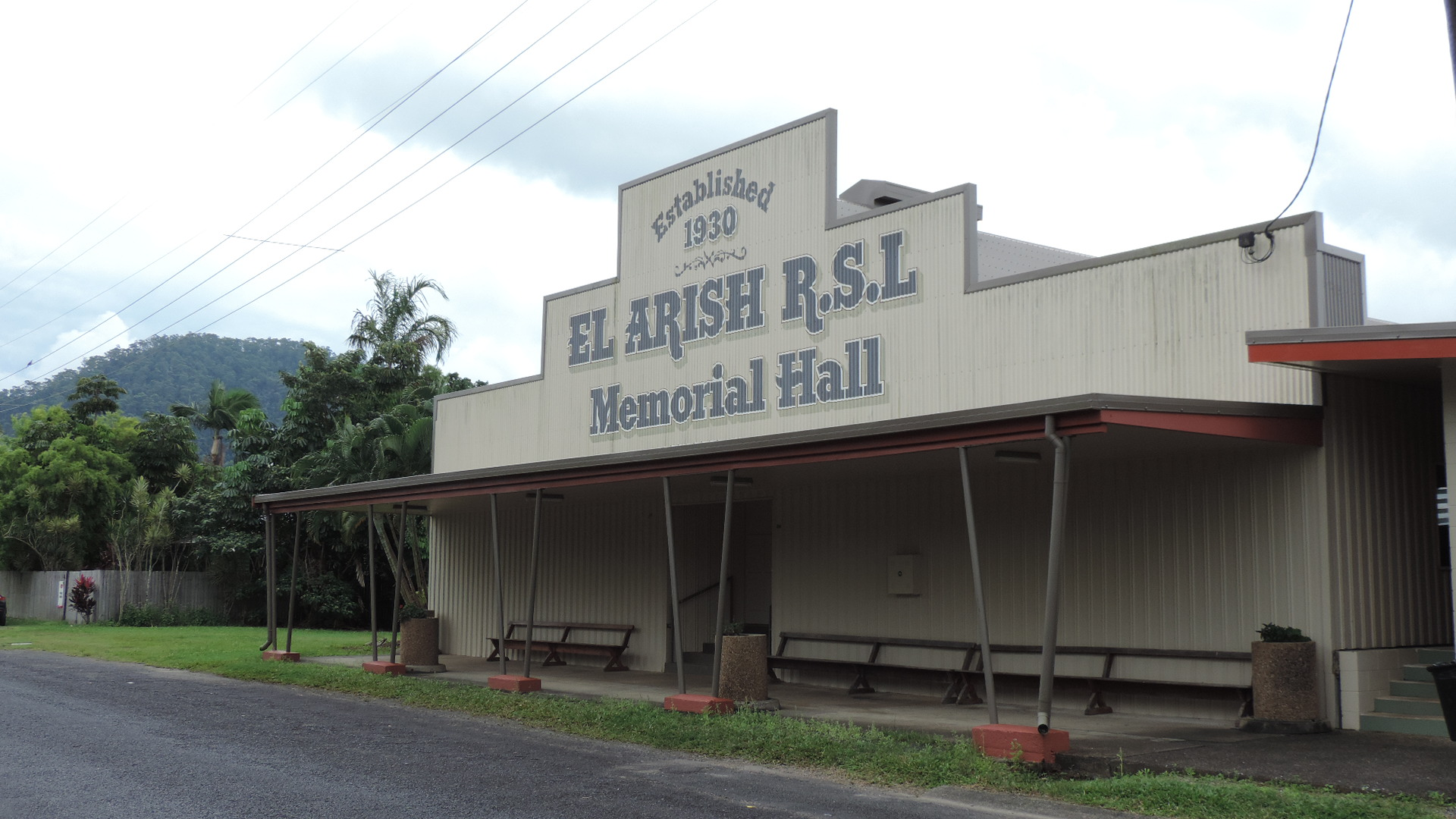 RSL Memorial Hall, El Arish, Queensland, established 1930